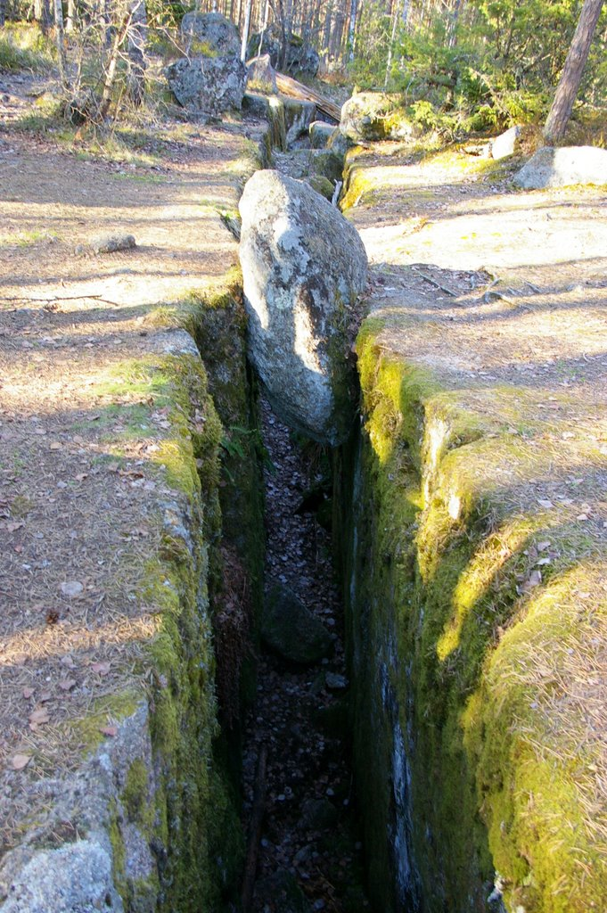 Trollegater cave.